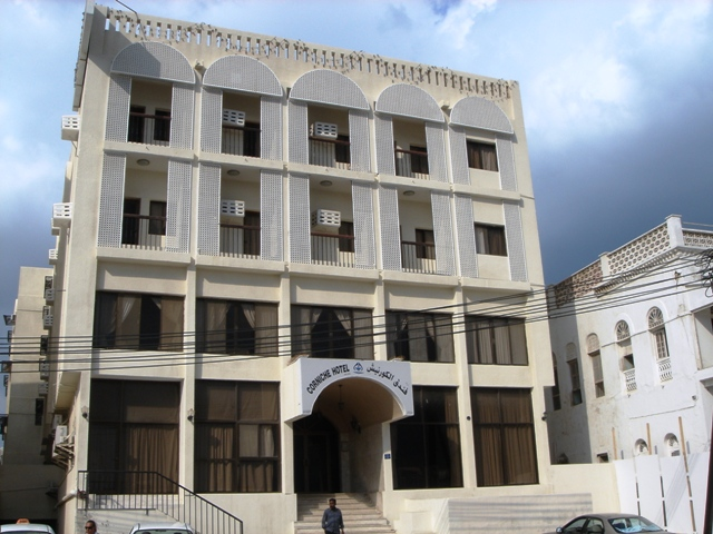 Corniche Hotel in Muscat